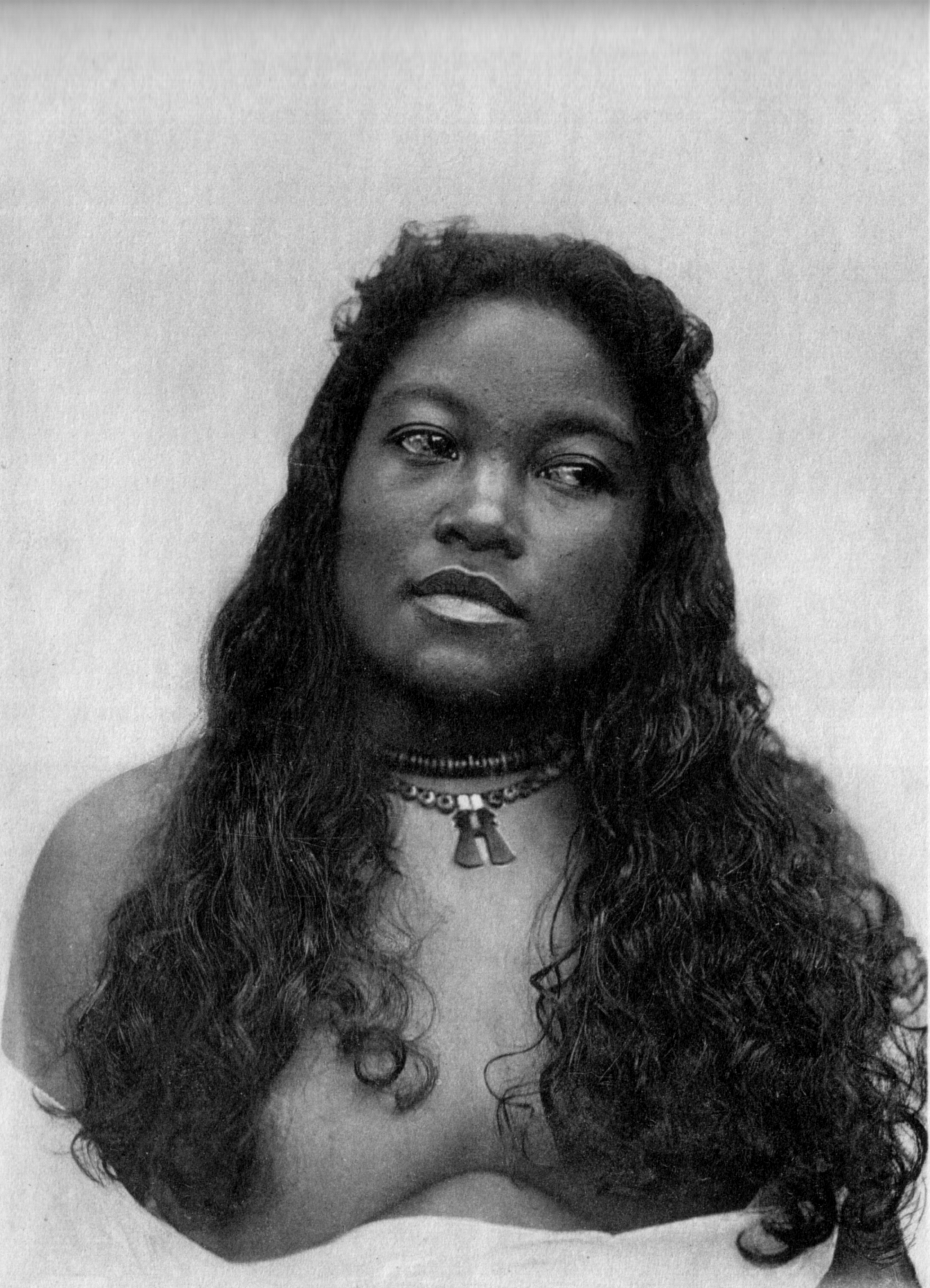 Marshallese woman from Jaluit with a traditional necklace. From Ralik-Ratak (Marshall Islands). In: Georg Thilenius (ed.), Hamburg South Sea Expedition 1908-1910 II. Ethnographie, B: Mikronesien. Vol. 11: Hamburg: Friedrichsen & de Gruyter.